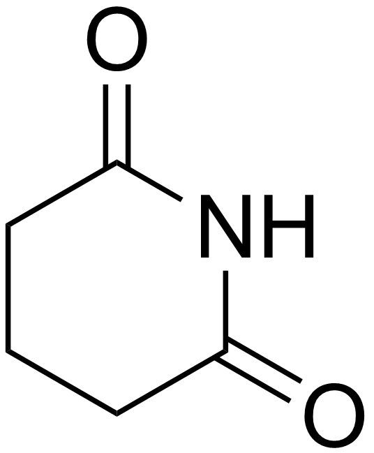 chemical structure of 2,6-piperidinedione